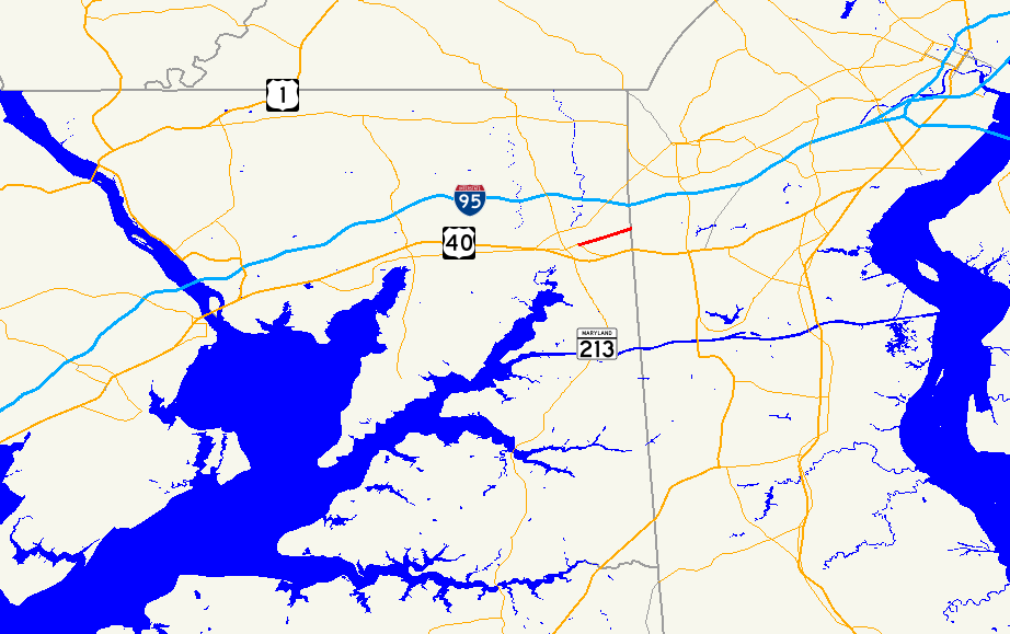 Map of Maryland Route 281